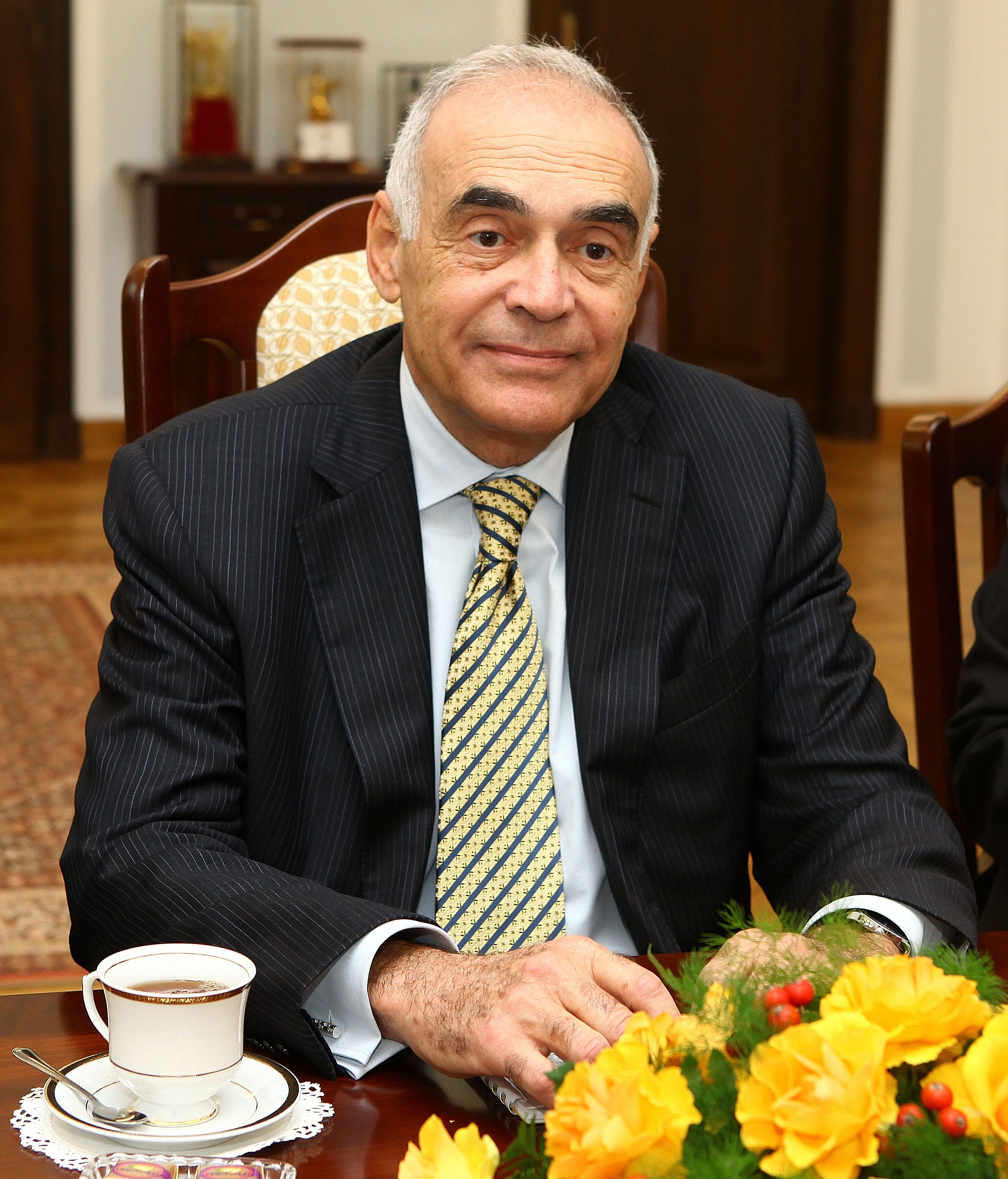 Minister of Foreign Affairs of Egypt Mohamed Kamel Amr in the Polish Senate